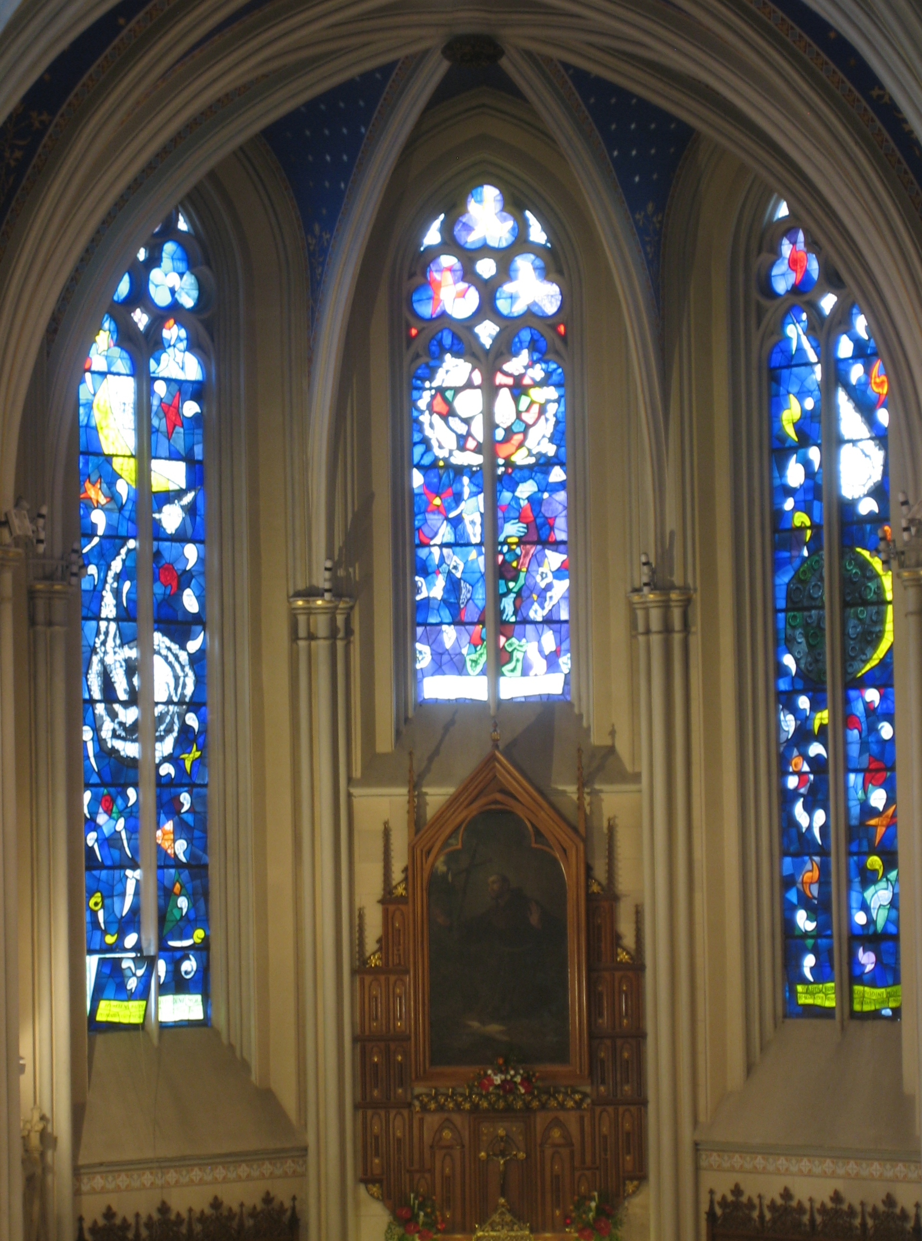 St. Francis Church of the franciscans in Zagreb, Croatia. Altar painting by Celestin Medović and stained glasses by Ivo Dulčić